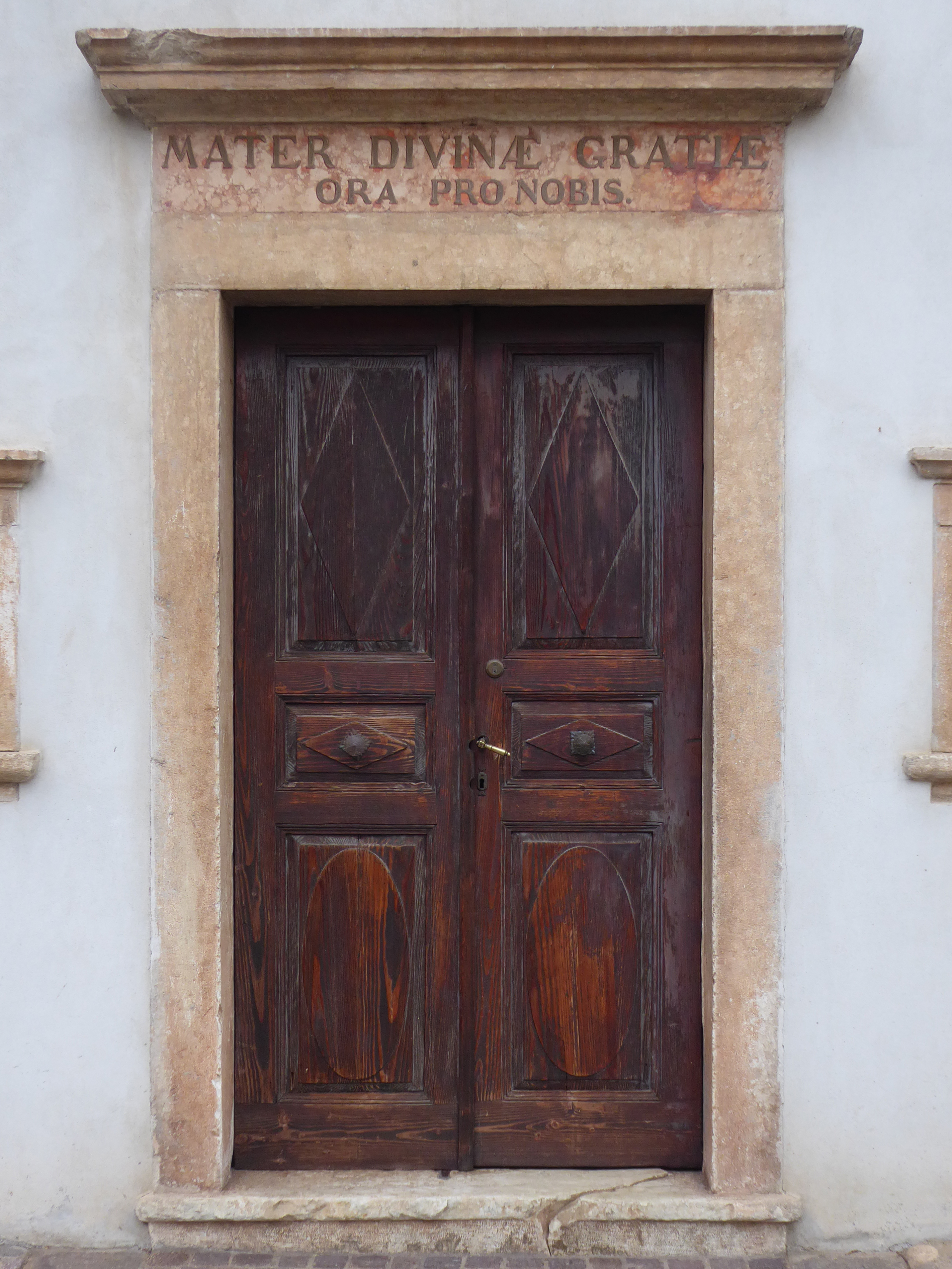 Vigo Meano (Trento) - Our Lady of Meadows chapel - Door